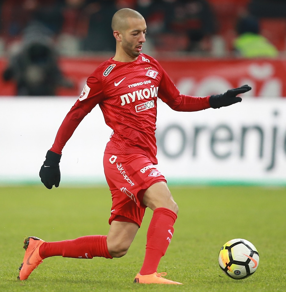 Sofiane Hanni with FC Spartak Moscow in a game against FC SKA-Khabarovsk.